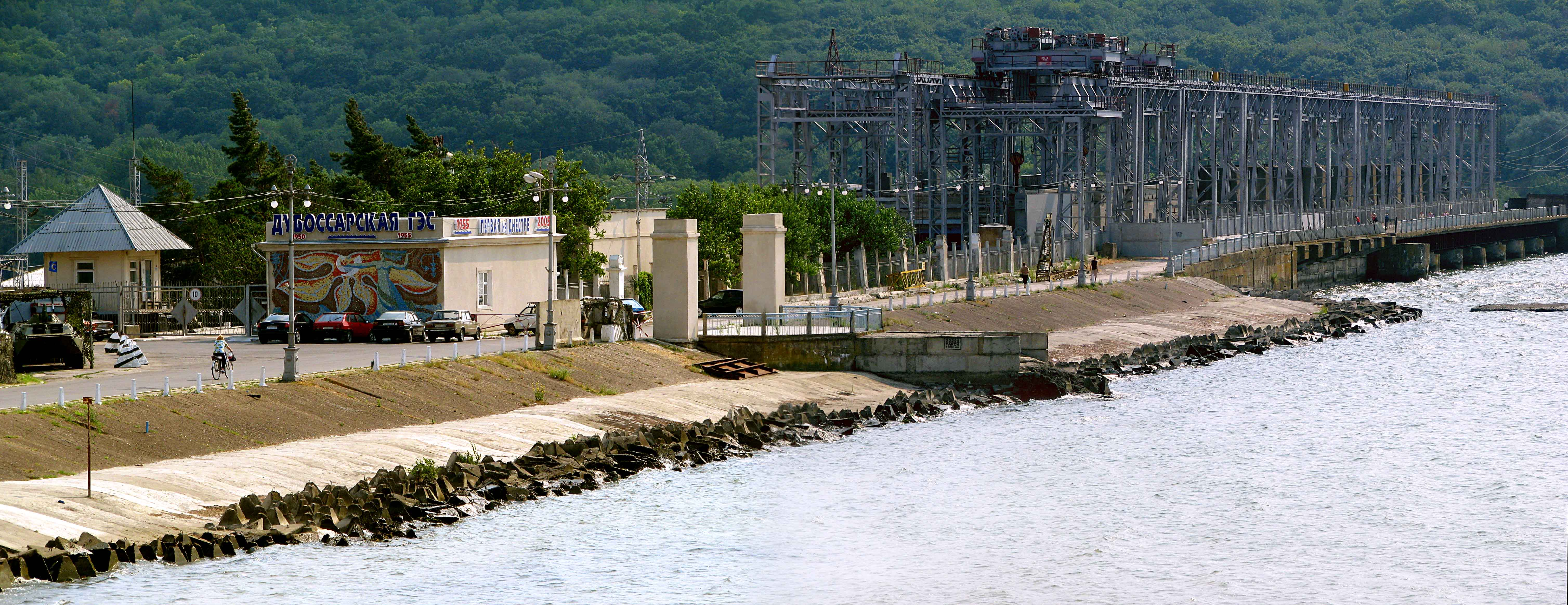 ГЭС Дубоссары